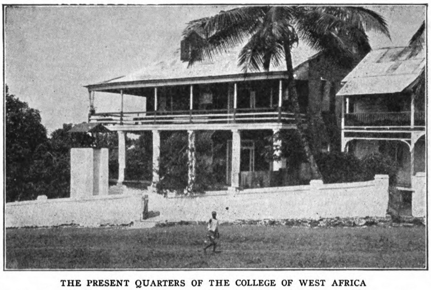 College of Westafrica - from: Annual report of the Missionary Society of the Methodist Episcopal Church.